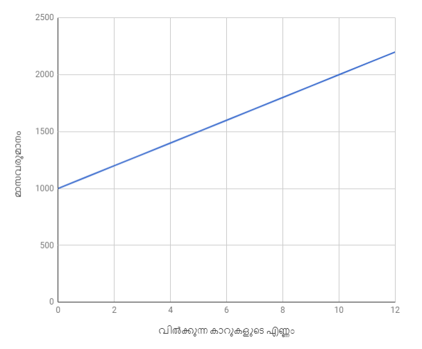 മാസവരുമാനത്തിന്റെ രേഖീയ ഗ്രാഫ്